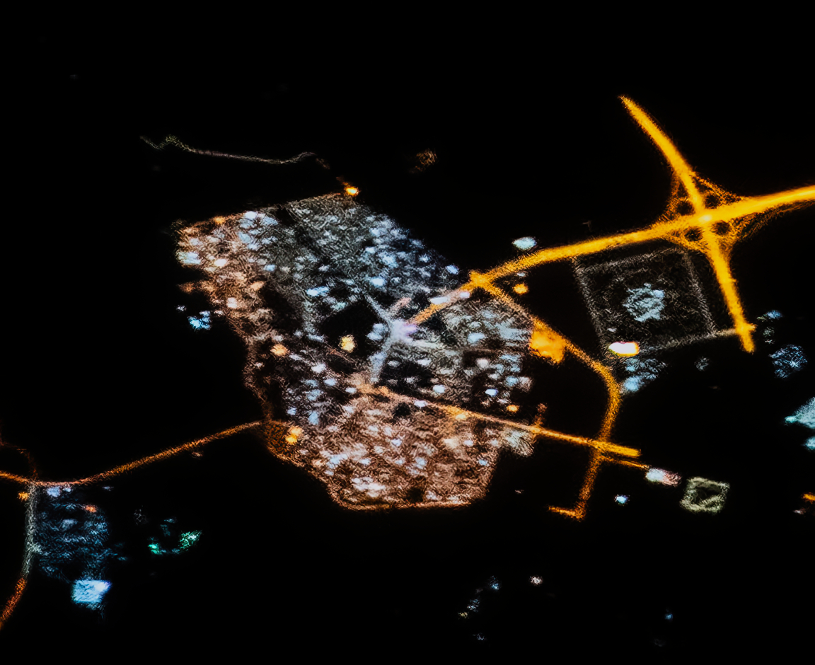 Doha, the capital city of Qatar, is pictured from the International Space Station as it orbited above the Arabian peninsula.